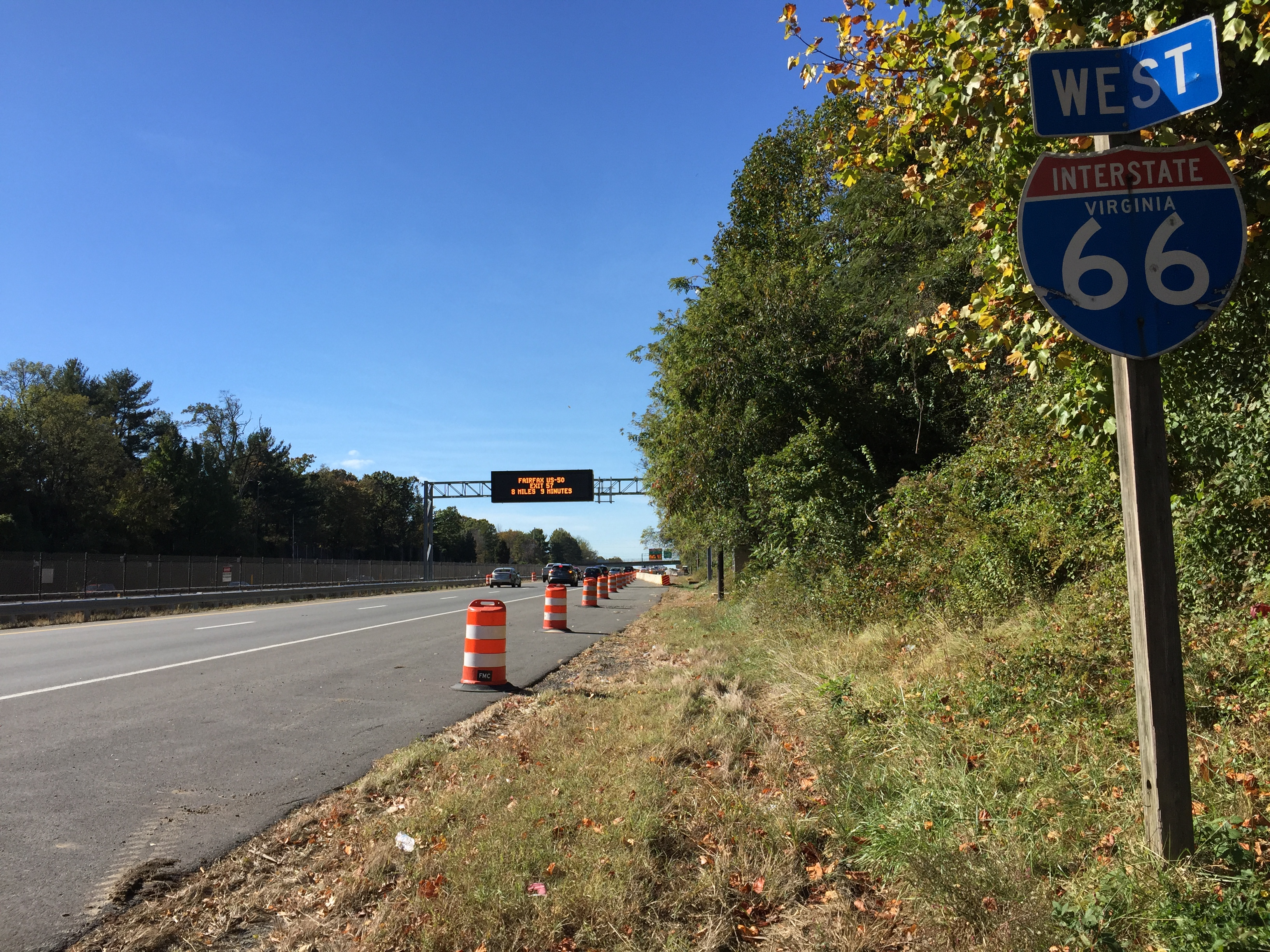 View west along Interstate 66 (Custis Memorial Parkway) just west of Exit 66 (Virginia State Route 7/Leesburg Pike, Tysons Corner, Falls Church) in Idylwood, Fairfax County, Virginia